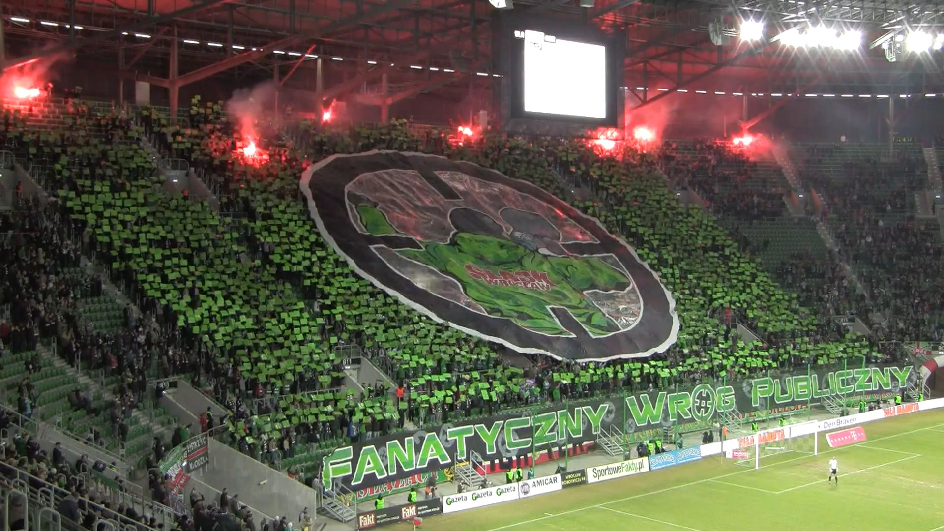 Scenery of Slask Wroclaw match with Korona Kielce, 2012-03-11 with emblem "Fanatical enemy of public"